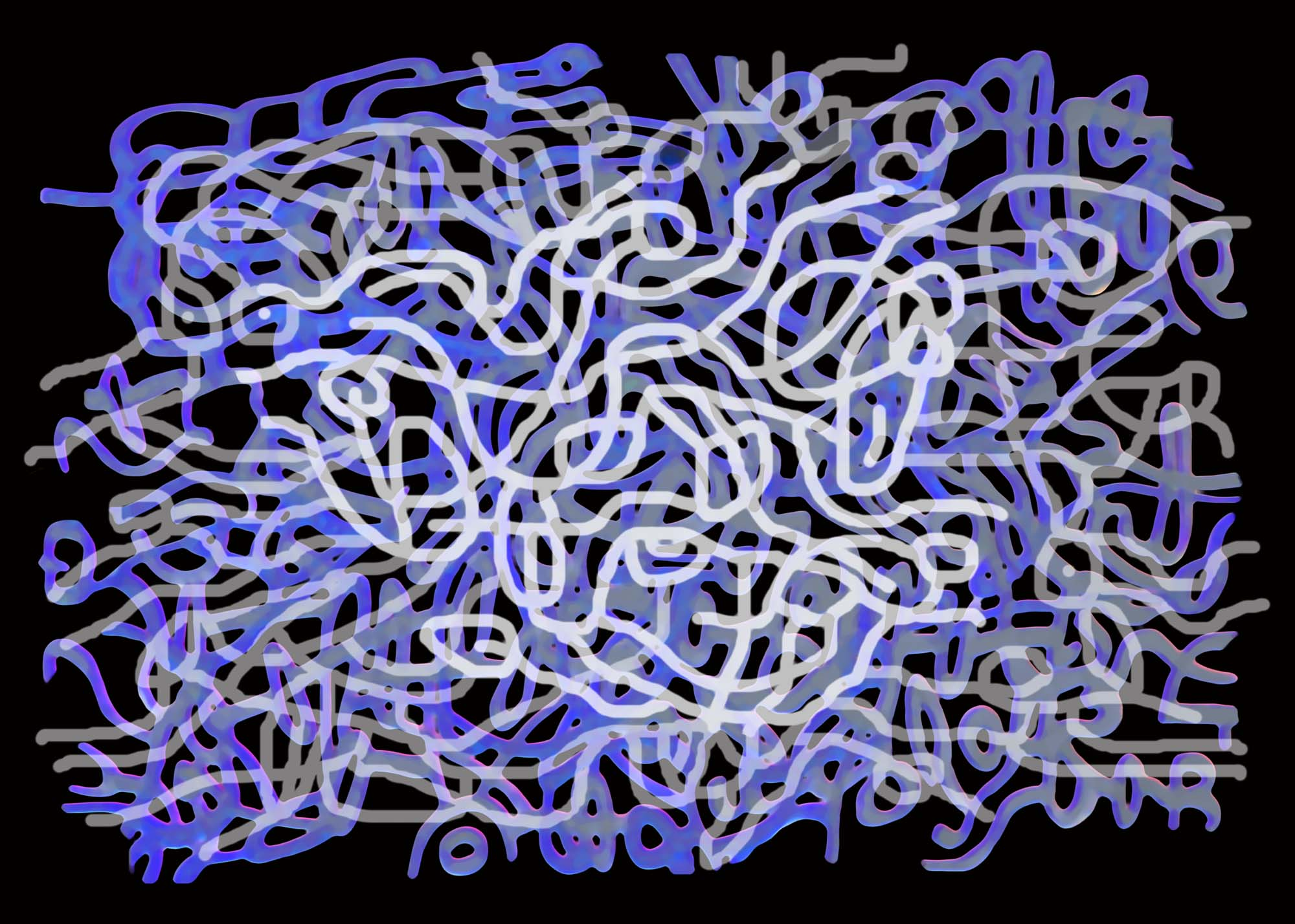 From the series "Romantique" Ballade, 2016, pigmented print on paper